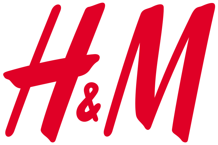 H&M Logo